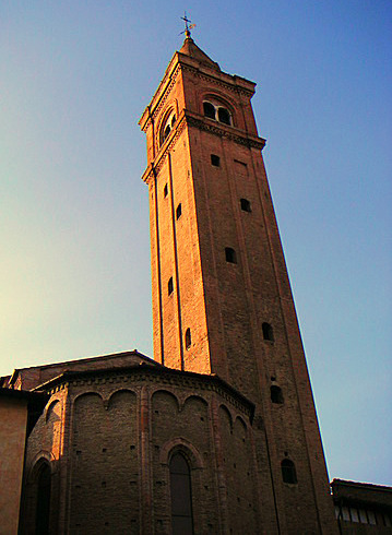 Il Duomo di Cesena